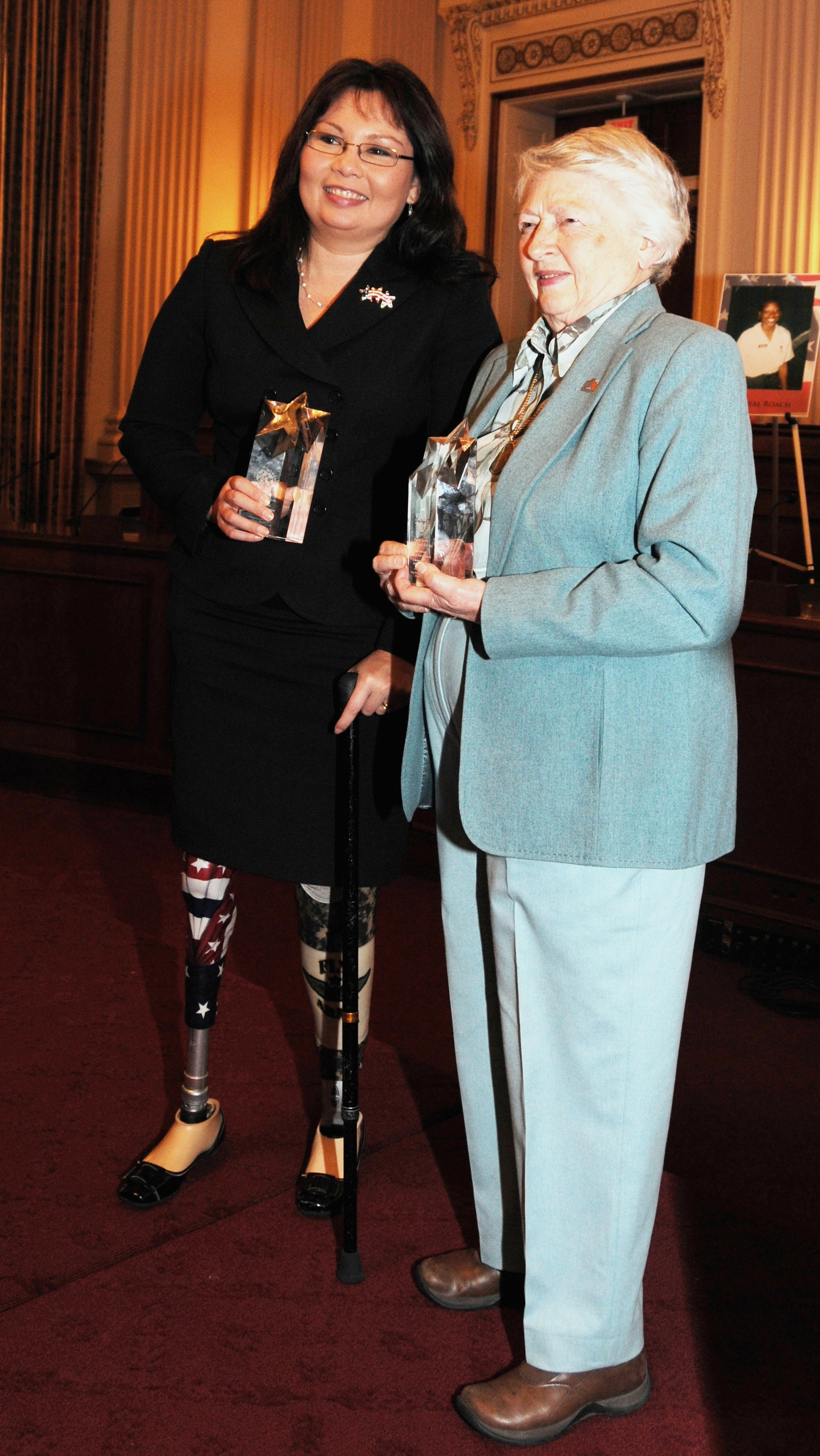 L. Tammy Duckworth, assistant secretary for public and intergovernmental affairs at the Department of Veterans Affairs, left, and retired Air Force Brig. Gen. Wilma Vaught were inducted into the Army Women's Foundation hall of fame March 17, on Capitol Hill, for extraordinary service to the U.S. Army. See more at Duckworth, Vaught inducted into Army Women's Foundation hall of fame